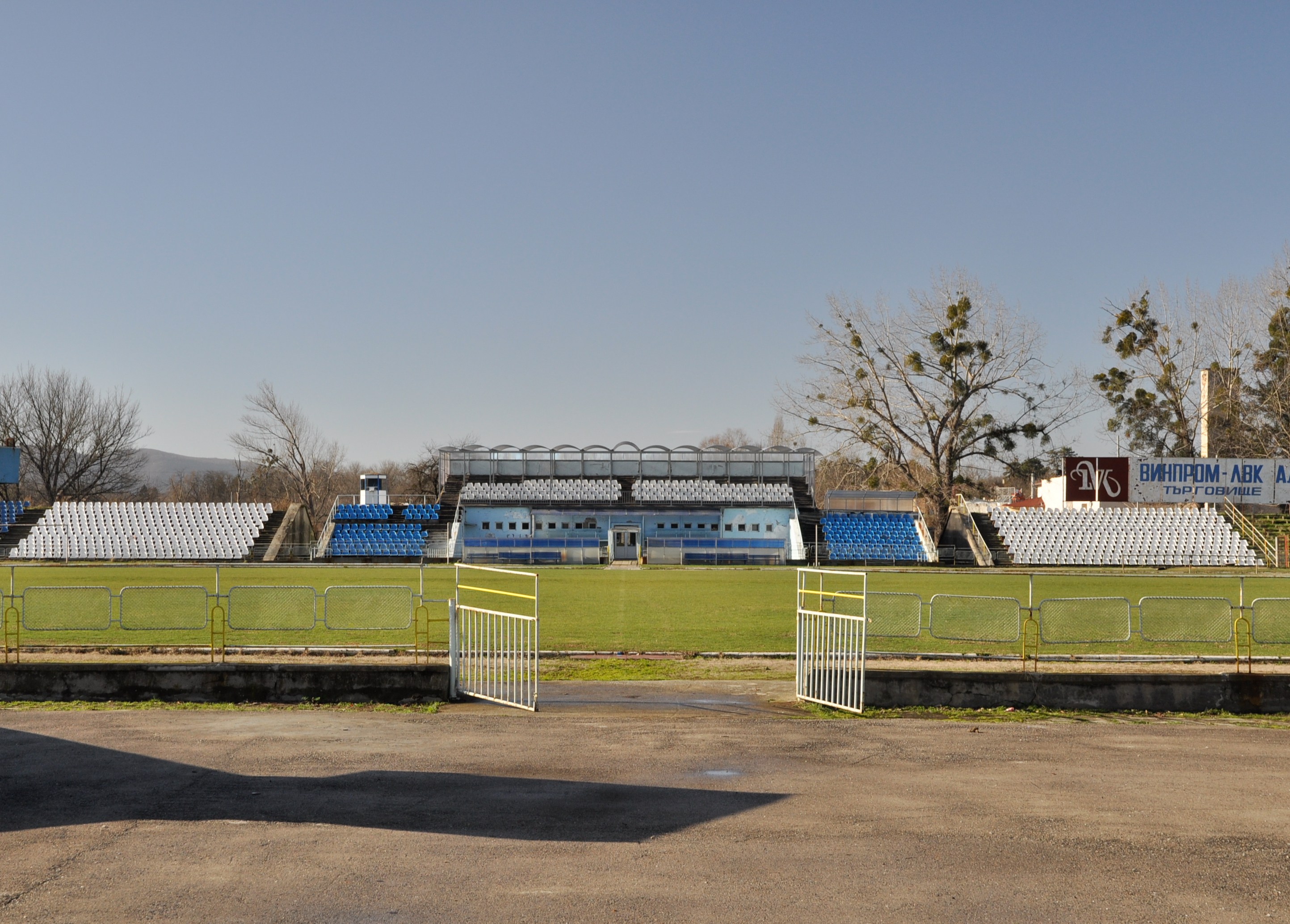 The municipal stadium Dimitar Burkov, Targovishte. Home of PFC Svetkavitsa.